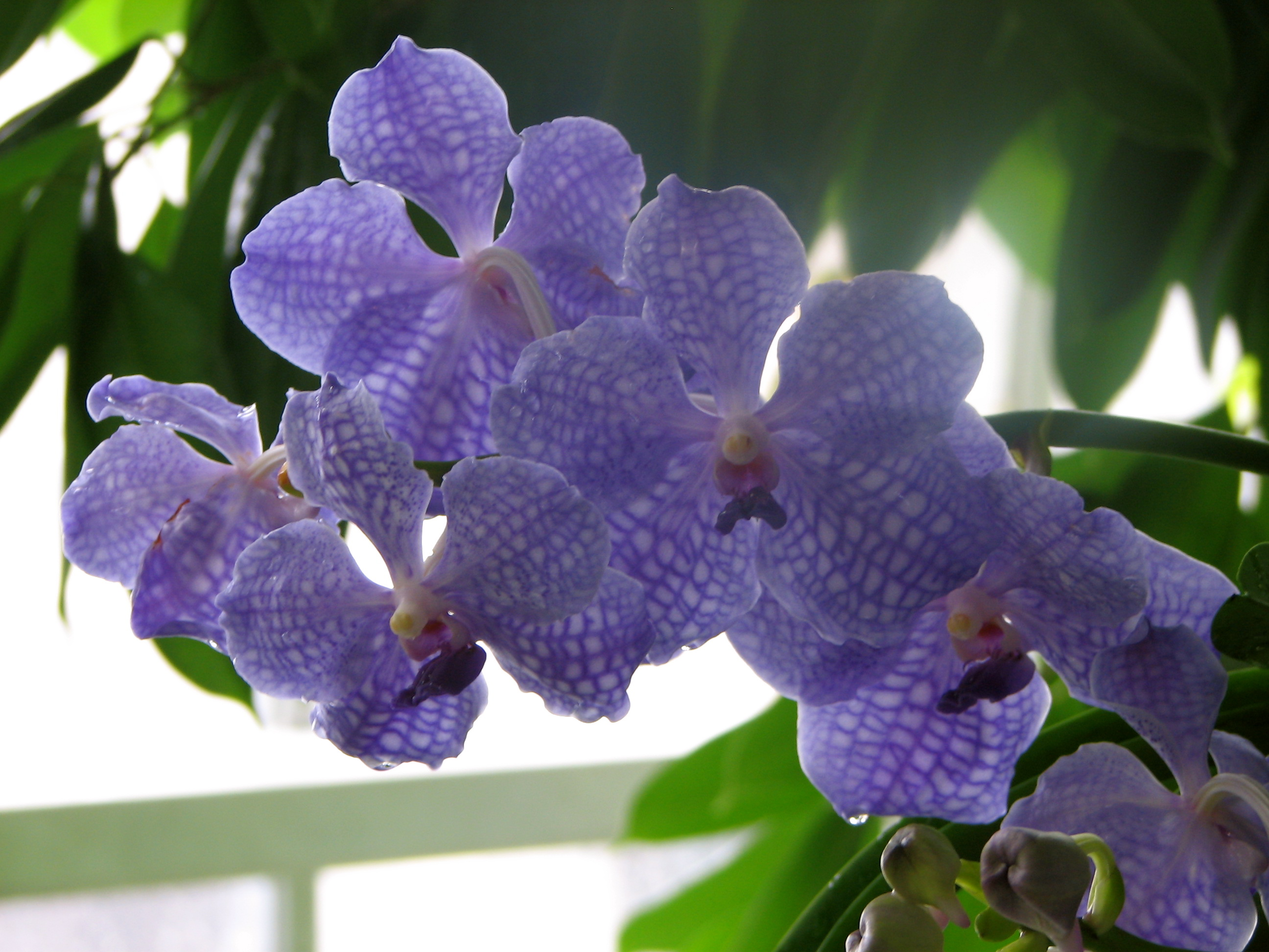 A batch of Vanda coerulea - hybrid, a type of orchid/